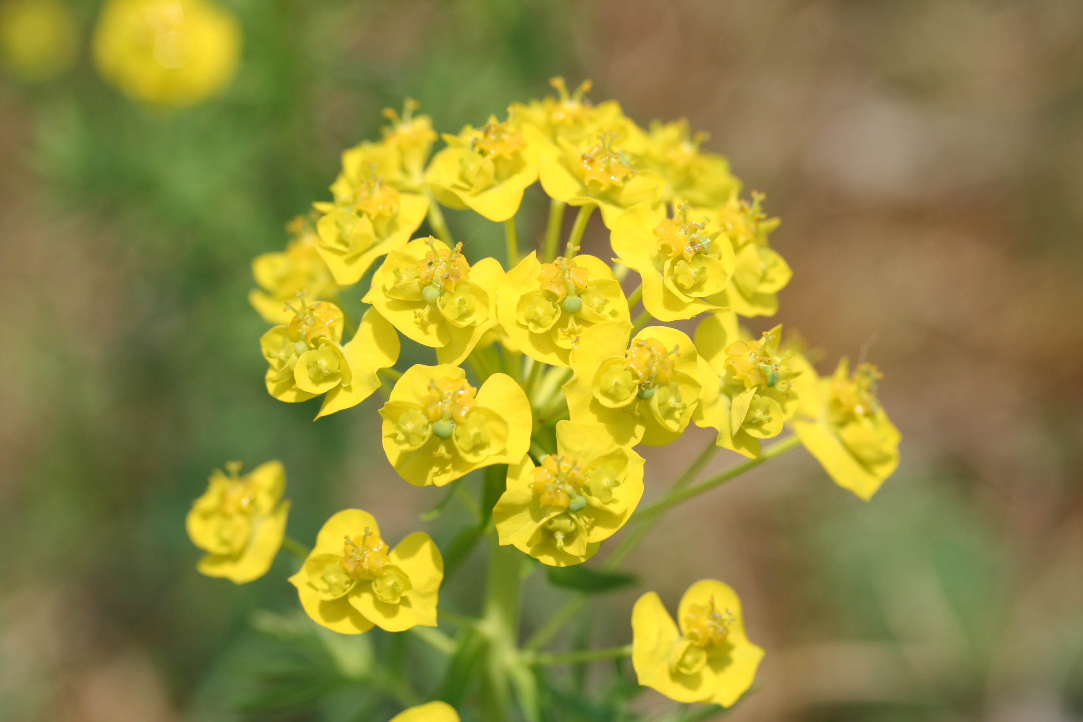 Euphorbia cyparissias 7 may 2006 IJmuiden, the Netherlands